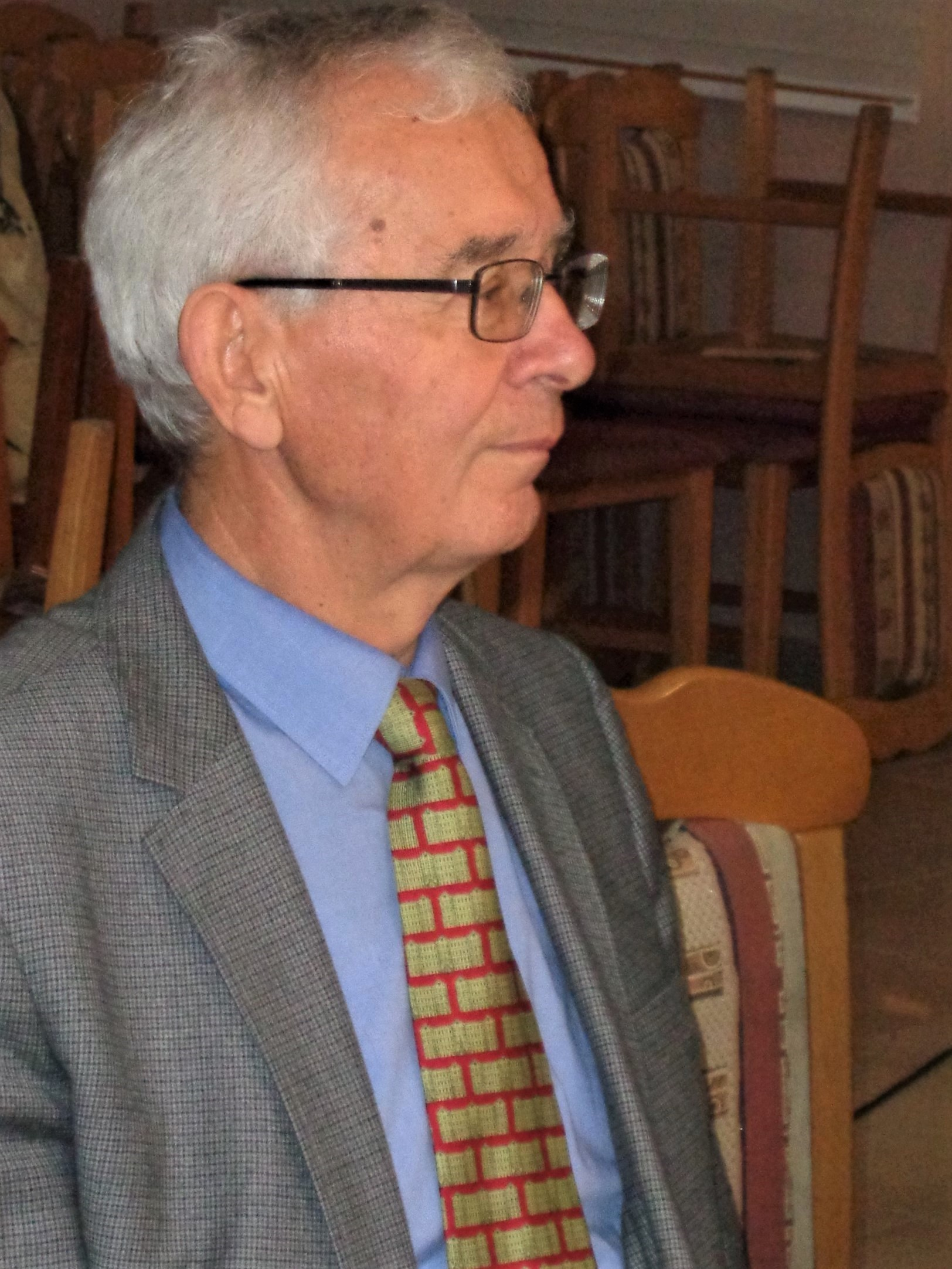 Stipe Botica, Chairman of the Matrix Croatica, pictured 2019 in Čakovec, Croatia